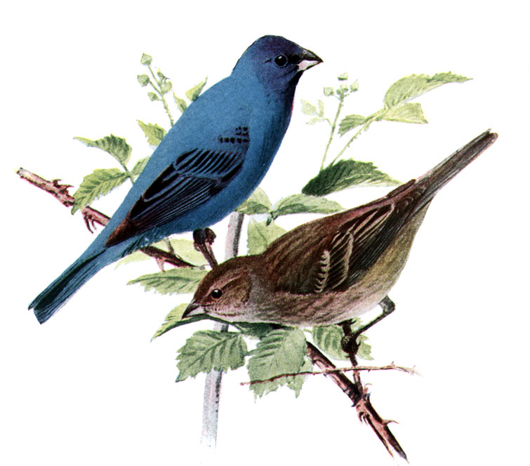 Indigo Bunting, Passerina cyanea, offset reproduction of watercolor